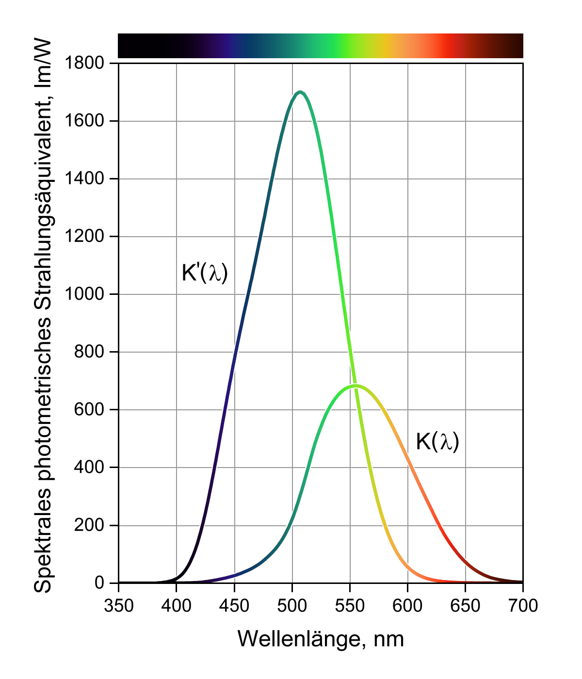 The spectral luminous efficacy describes the sensitivity of the human eye for light of different wavelengths. The curve K(lambda) refers to day vision, the curve K'(lambda) refers to night vision.